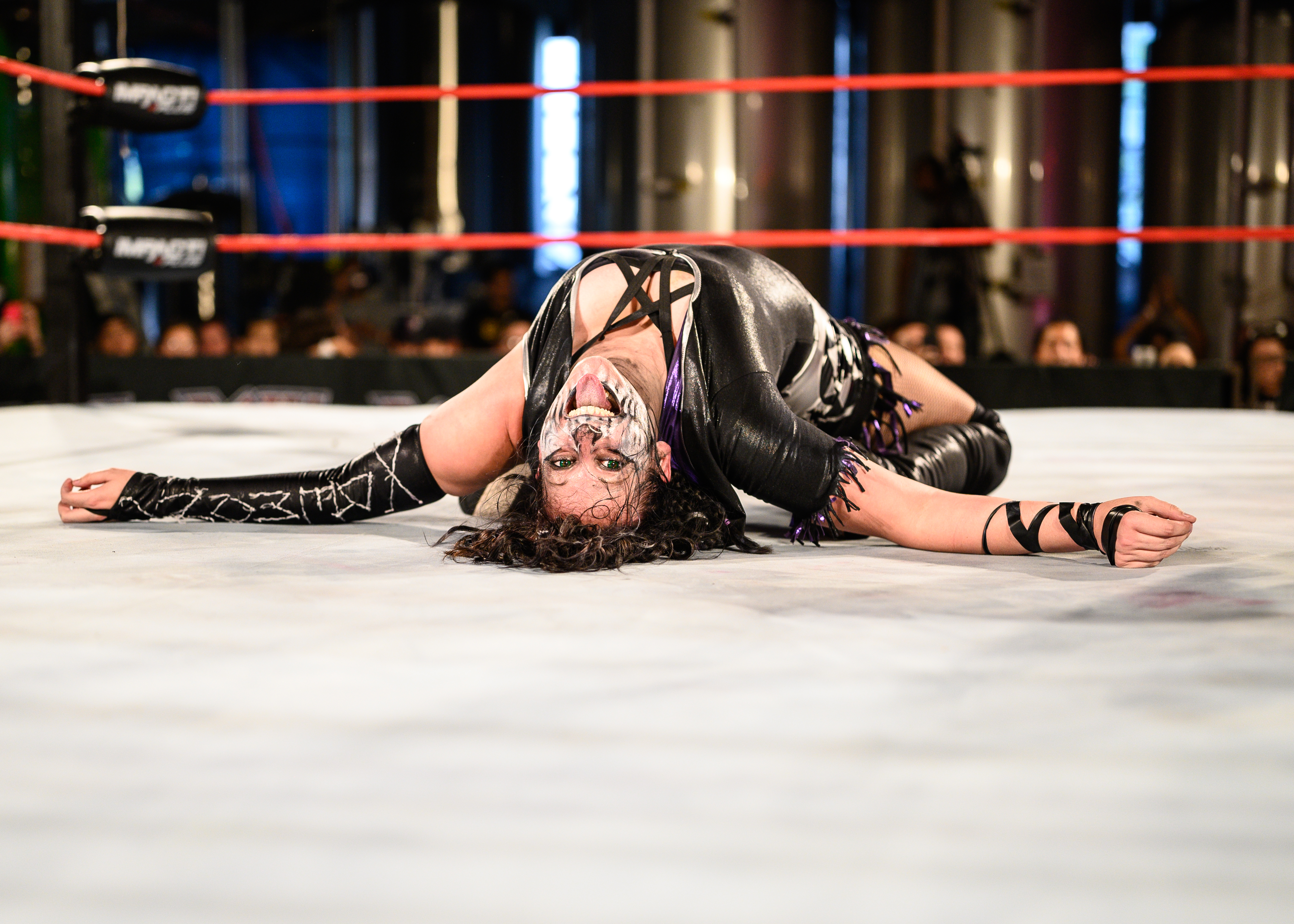 pro wrestler Rosemary